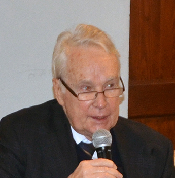 9 December 2015 - Historical Archives of the European Union - Villa Salviati